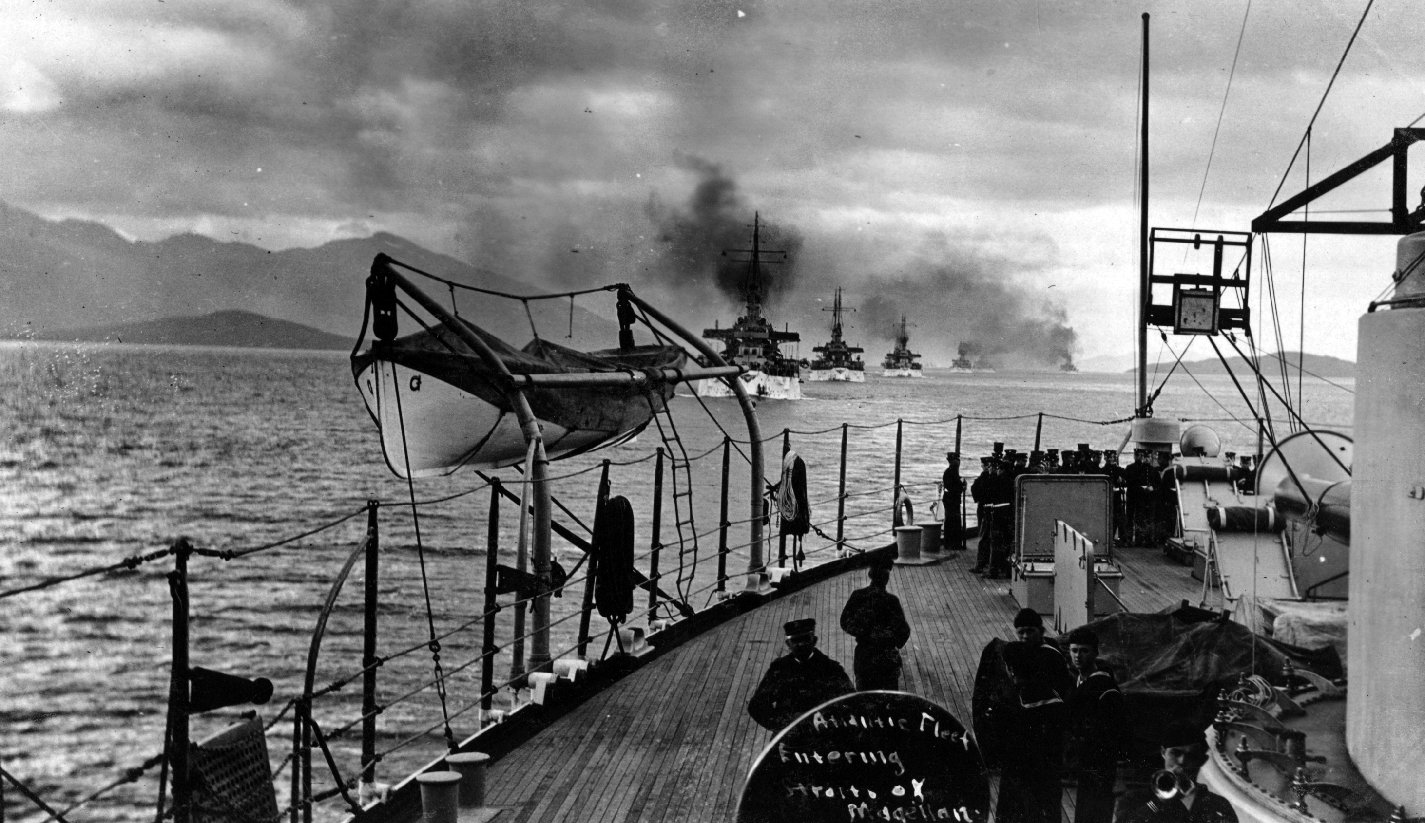 U.S. Atlantic Fleet battleships entering the straits en route to the Pacific, circa 7-8 February 1908, during the World cruise of the Great White Fleet. Photographed from the afterdeck of USS Georgia (Battleship # 15). Note her quarterdeck whaleboat, on davits in left center, and dotter gunnery practice aiming device at right. Collection of Chief Quartermaster John Harold. U.S. Naval History and Heritage Command Photograph.